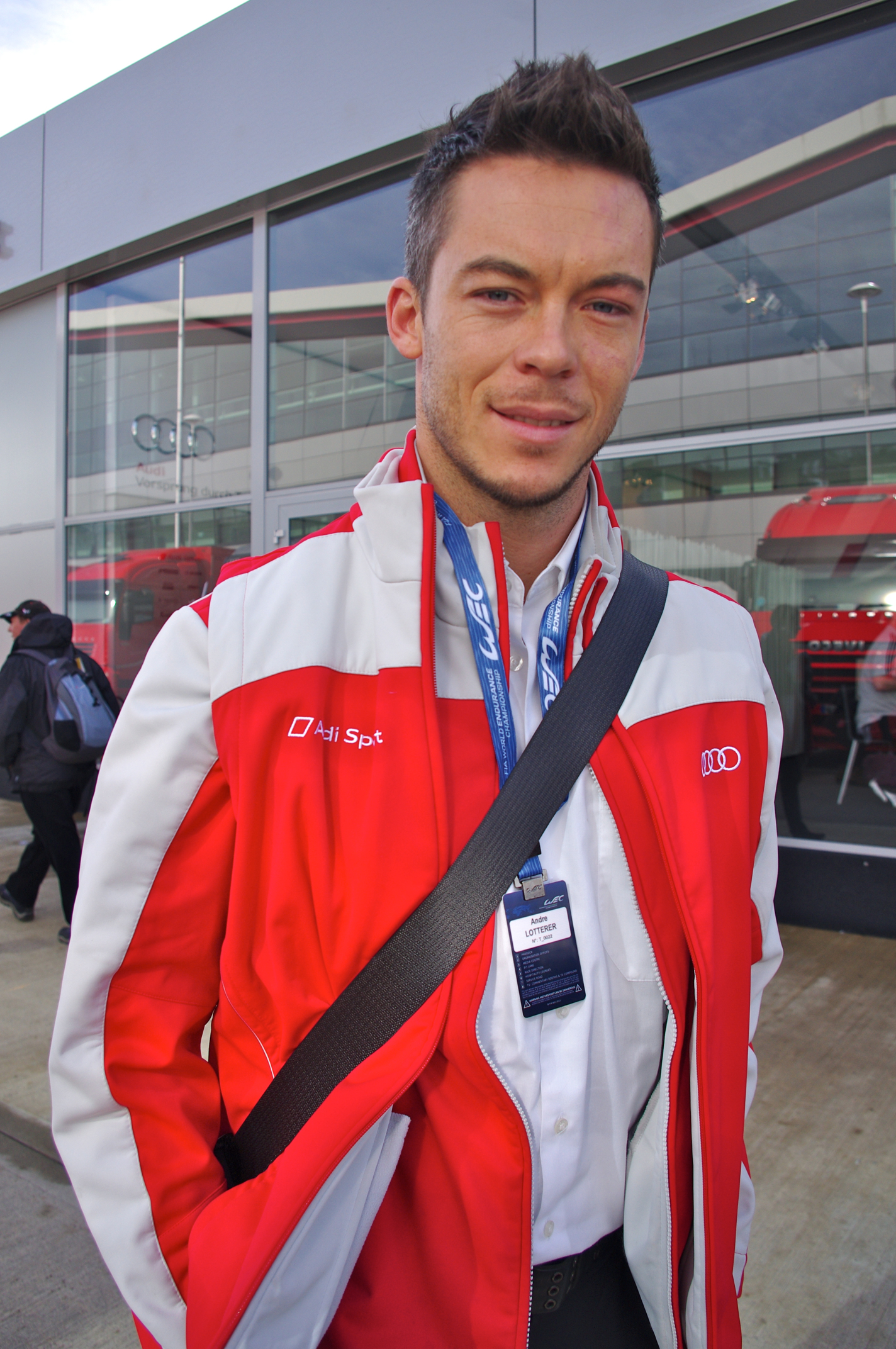 Audi Team Joest driver André Lotterer at the 6 Hours of Silverstone. Round 1 of the 2013 FIA World Endurance Championship.